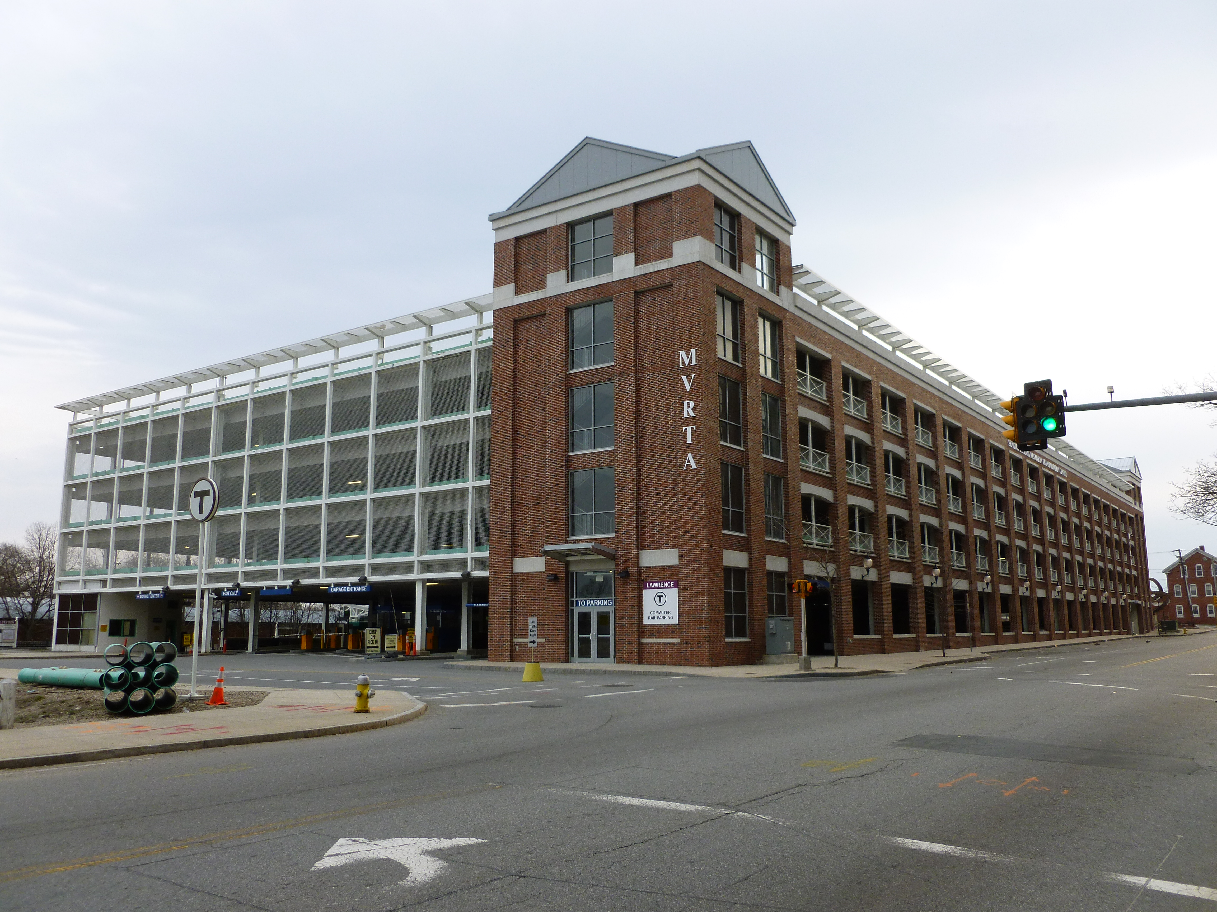 McGovern Transportation Center, located at 211 Merrimack Street, Lawrence, Massachusetts. East and north sides of building shown. This is the Lawrence MBTA station.